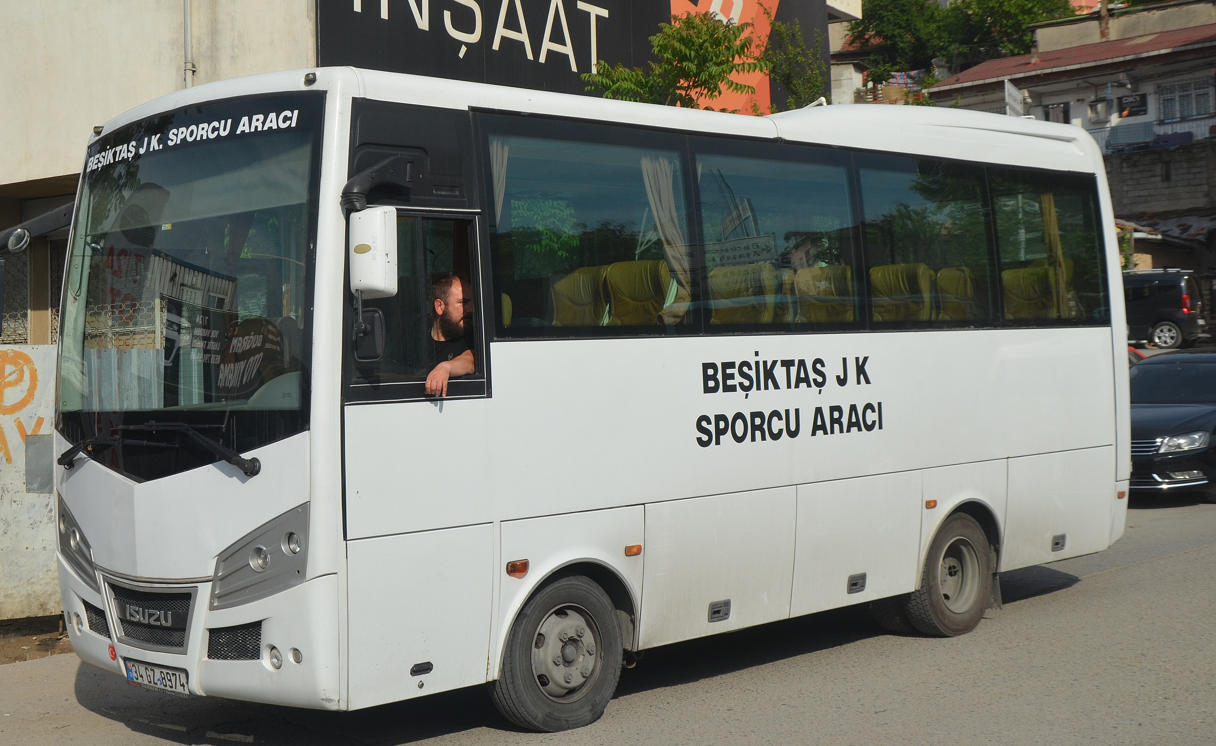 Team bus of Beşiktaş JK women's football